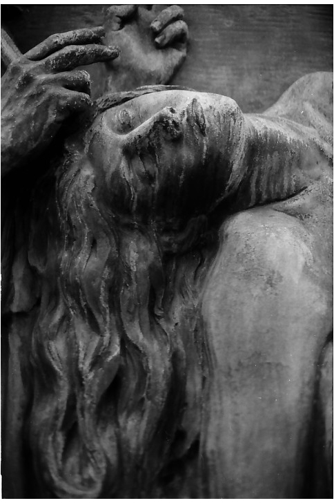 photo by Einar Einarsson Kvaran aka Carptrash 23:11, 10 February 2007 (UTC) . Haass Memorial, by Charles Keck in Woodlawn Cemetery (Detroit)